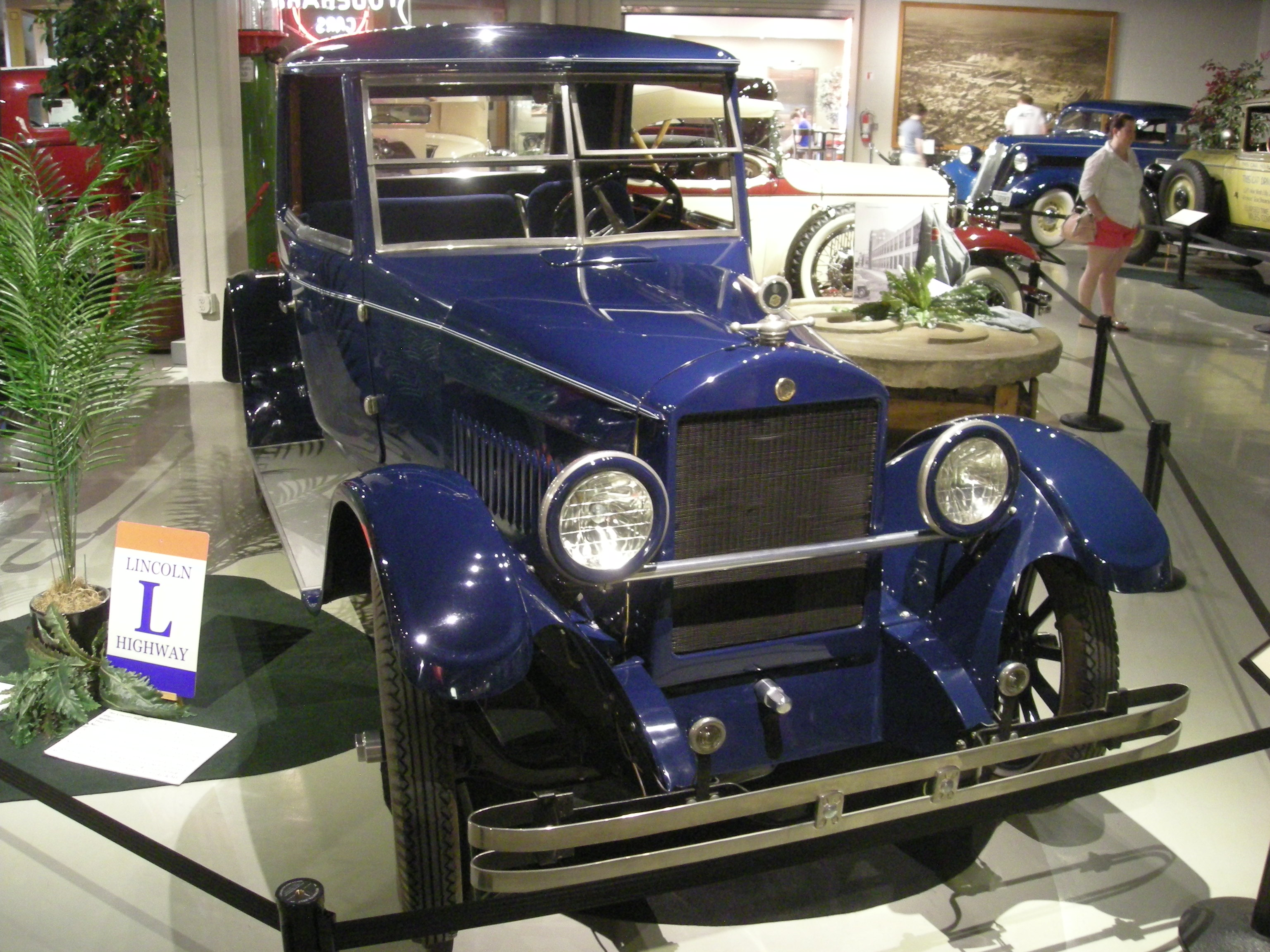 A 1924 Studebaker Light Six at the Studebaker National Museum in South Bend, Indiana (United States).